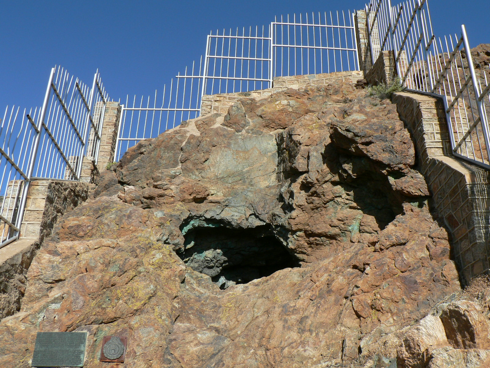 Prospecting trench create by Governor Simon van der Stel during his expedition to Namaqualand in 1685. This media shows a South African Protected Site with SAHRA file reference 15/K/Spr/2.